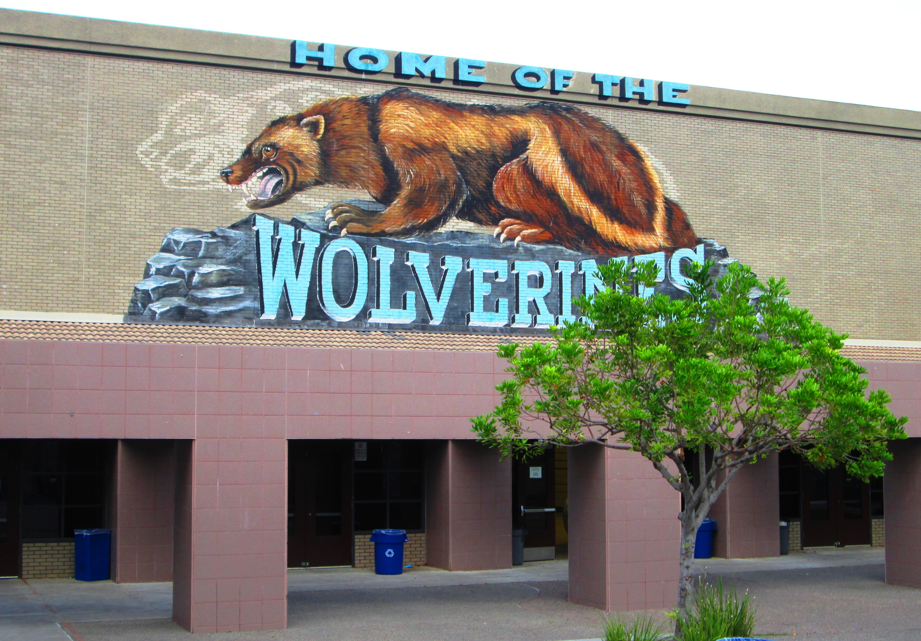 Aliso Niguel High School is located in the city of Aliso Viejo, California, which is part of the Capistrano Unified School District. Most of its students reside in the communities of Aliso Viejo and Laguna Niguel. The school is a California Distinguished School, a National Blue Ribbon School, and a New American High School.[1] Aliso Niguel was ranked as number 217 in Newsweek's 2011 list of the top 500 high schools in the nation, and was within the top 5% of high schools nationwide. It was founded in 1993.